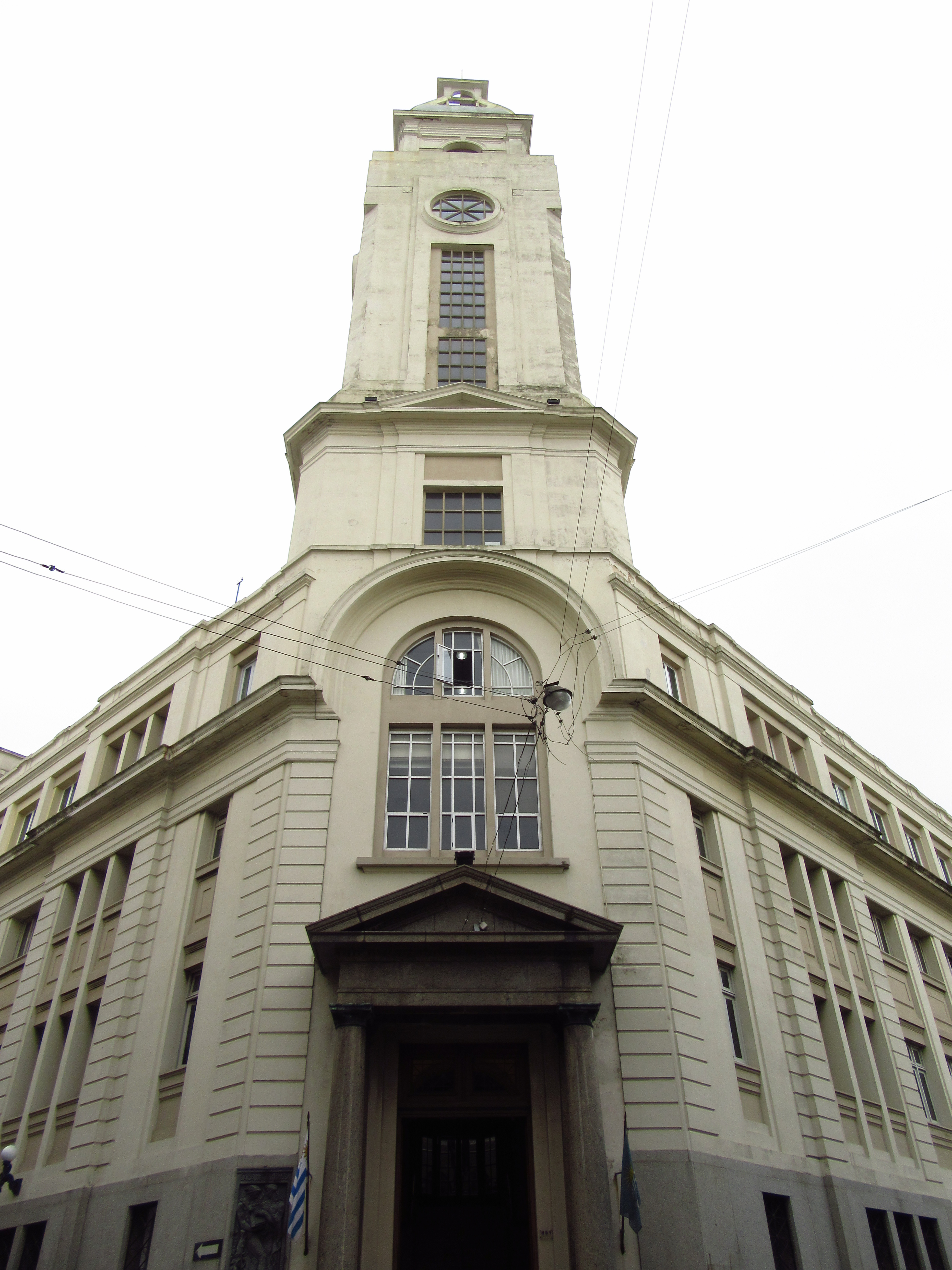 Montevideo